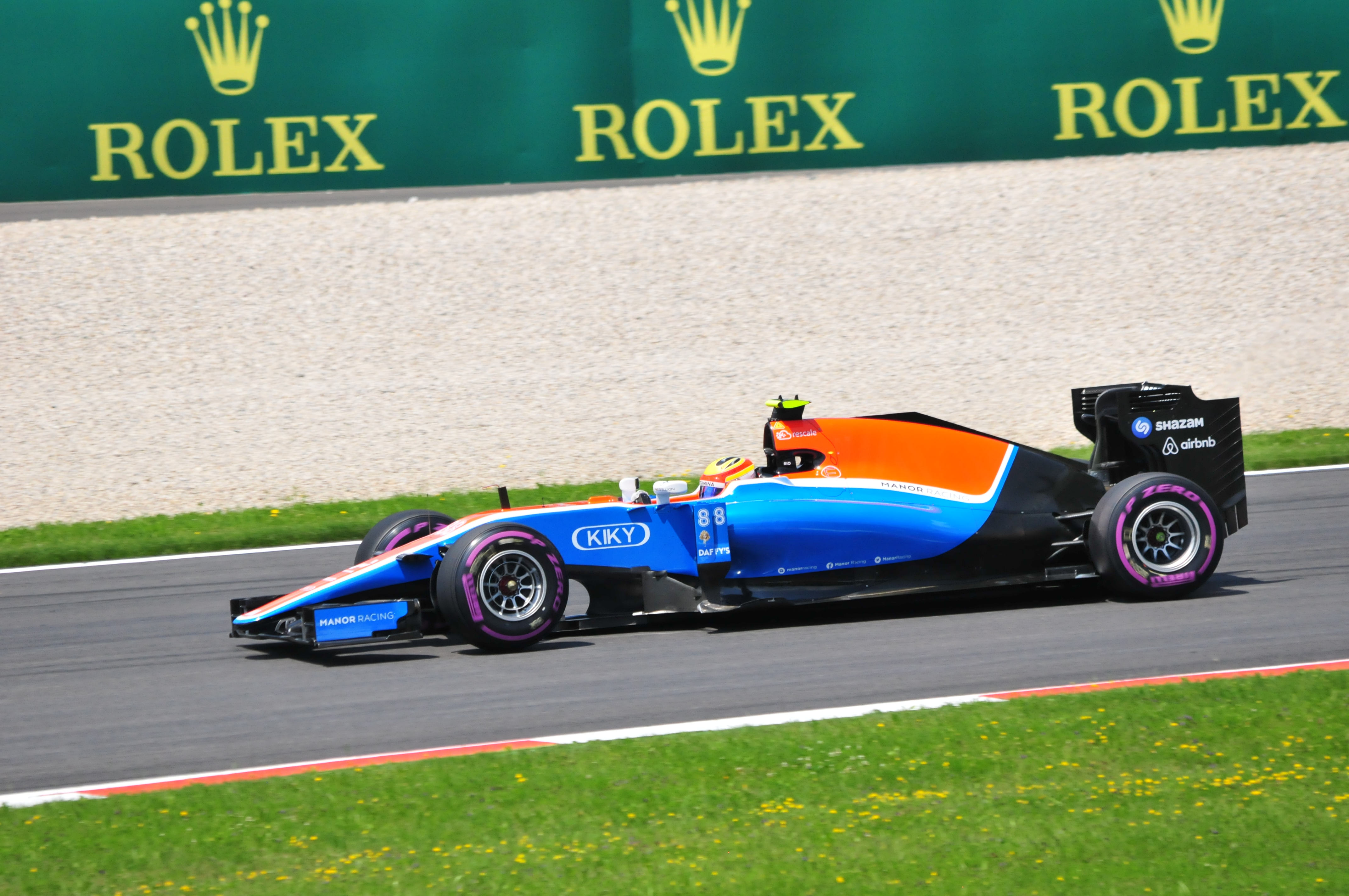 Manor Racing #88 Rio Haryanto